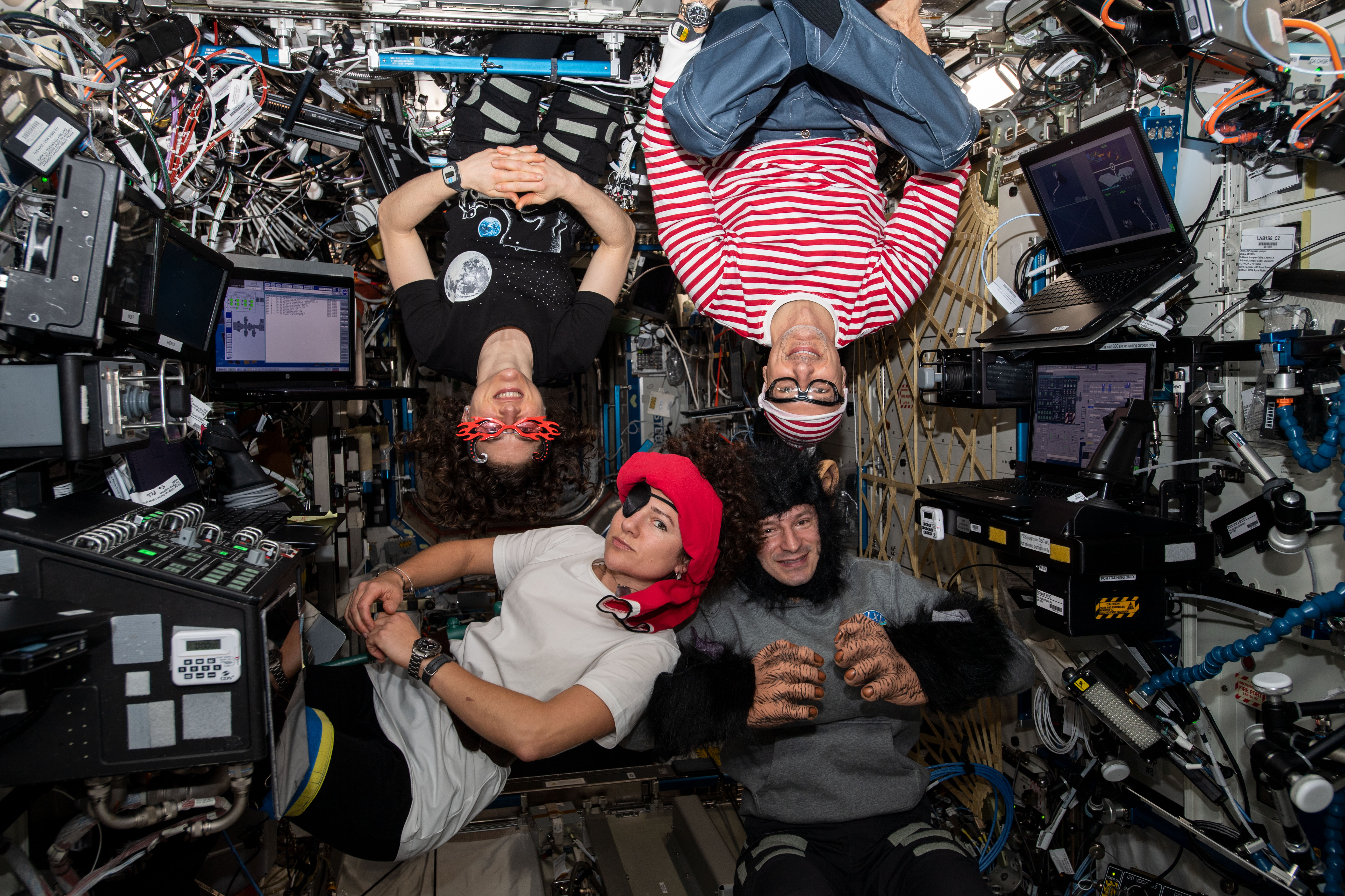 Expedition 61 astronauts (clockwise from top left) Christina Koch, Luca Parmitano, Andrew Morgan and Jessica Meir pose for a portrait in their Halloween costumes aboard the International Space Station.